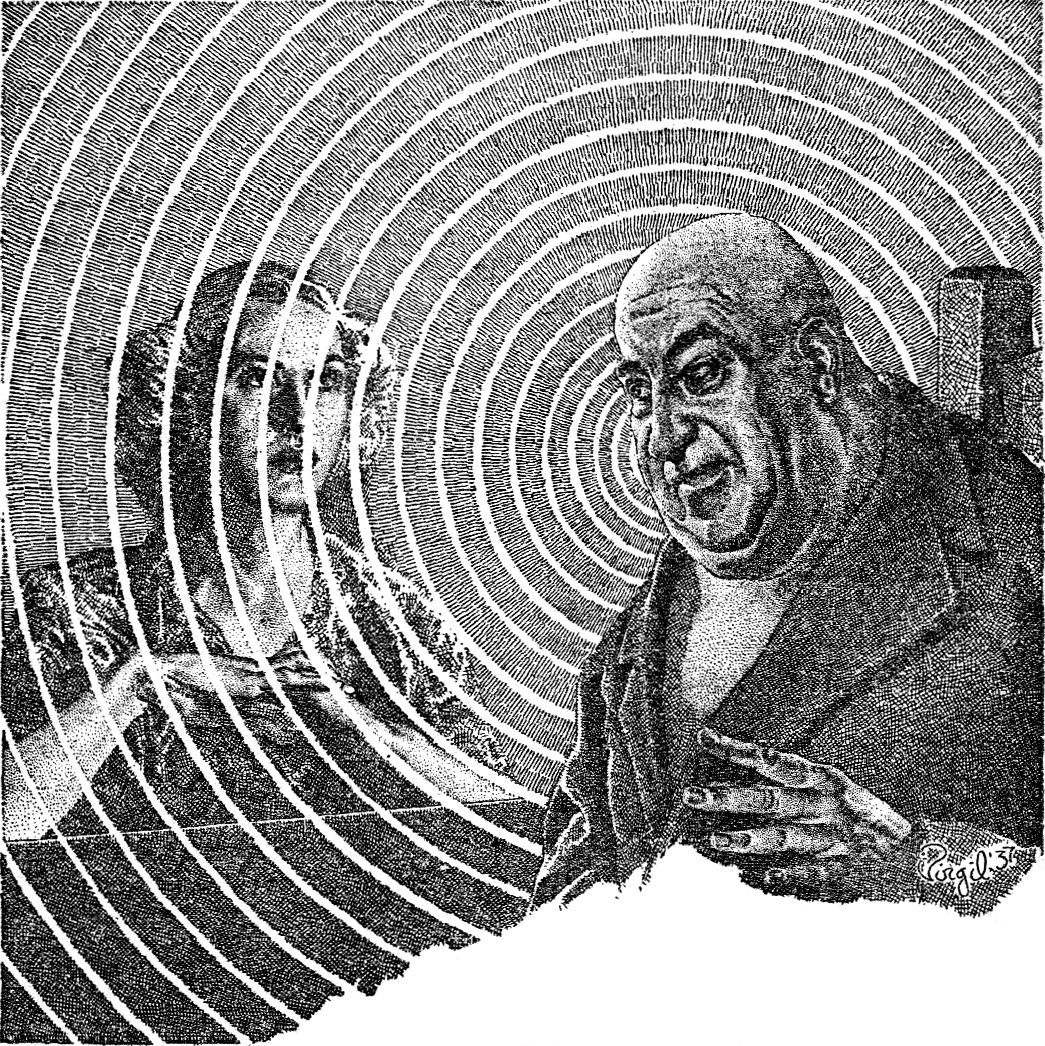 Main illustration for the story "The Thing on the Floor". Internal illustration from the pulp magazine Weird Tales (March 1938, vol. 31, no. 3, page 281).